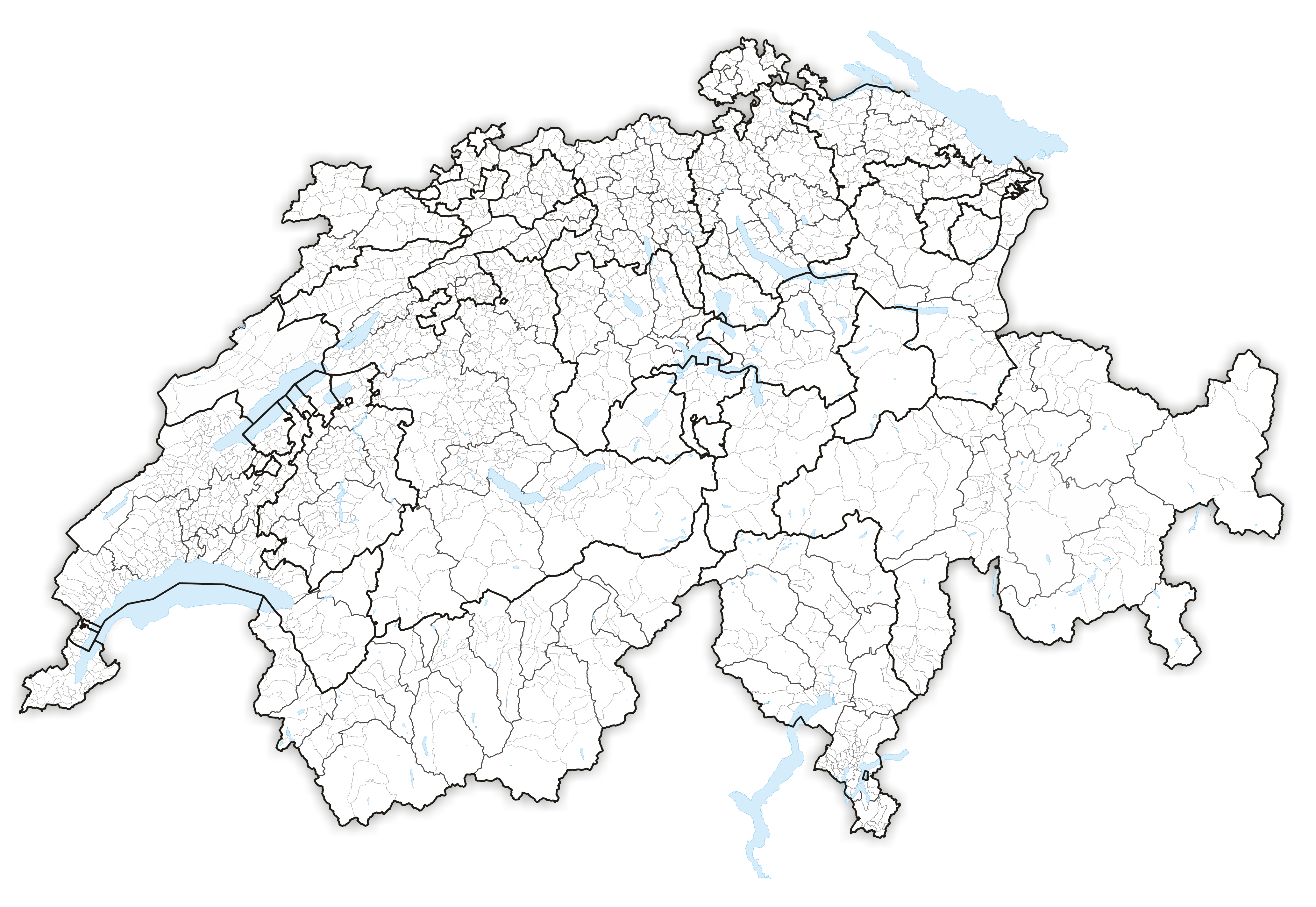 Municipalities in Switzerland